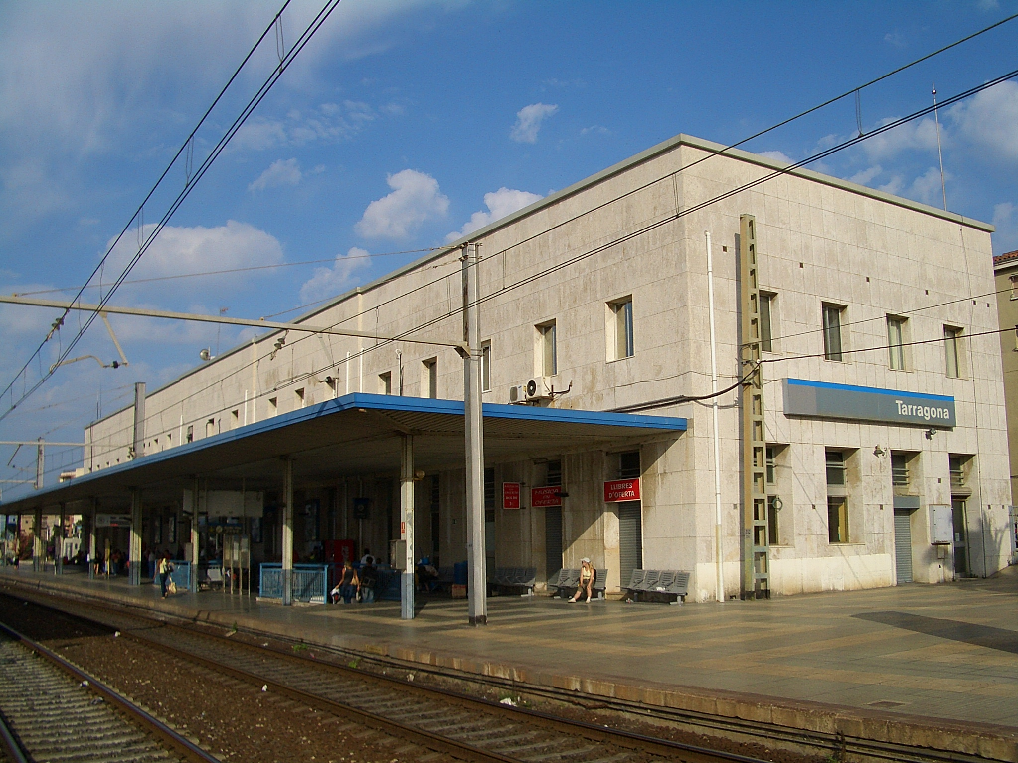 Tarragona train station